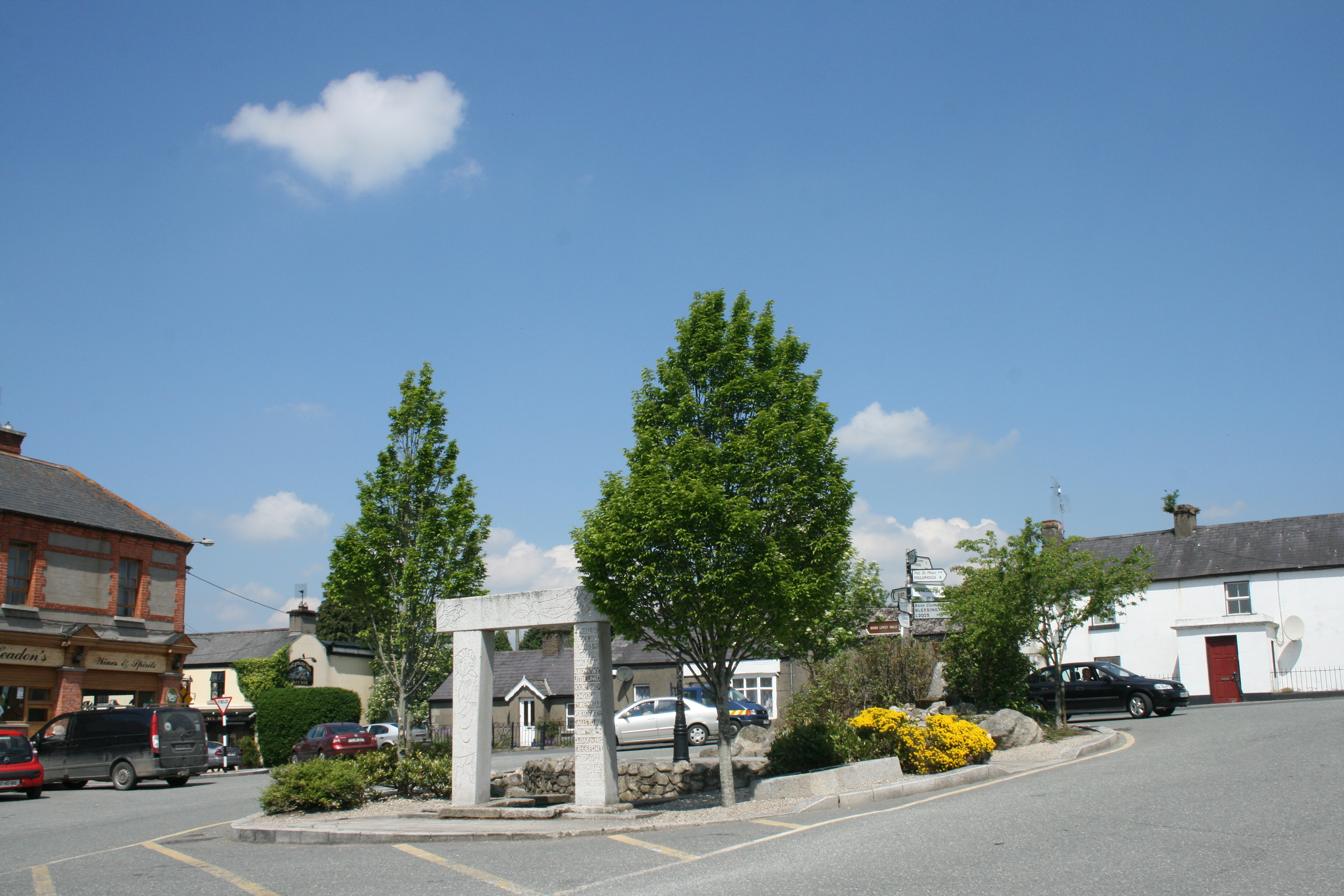 Ballymore Eustace, town centre